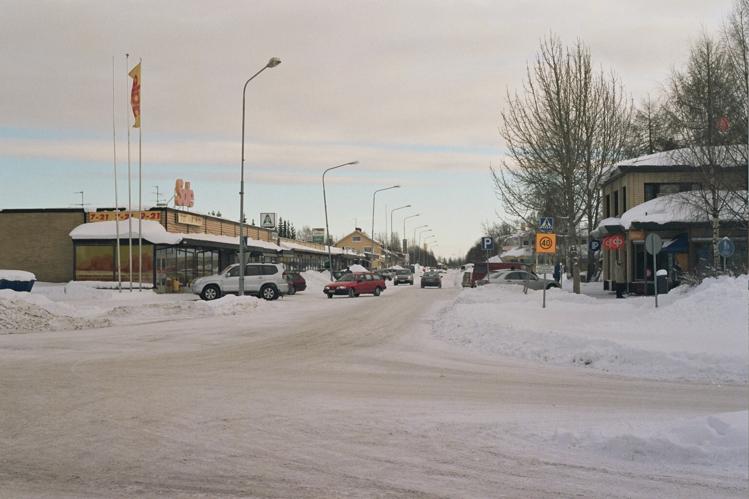 The Kemintie street in the Pudas district of the city of Tornio in Finland. It is mostly lined with small shops and other small businesses.